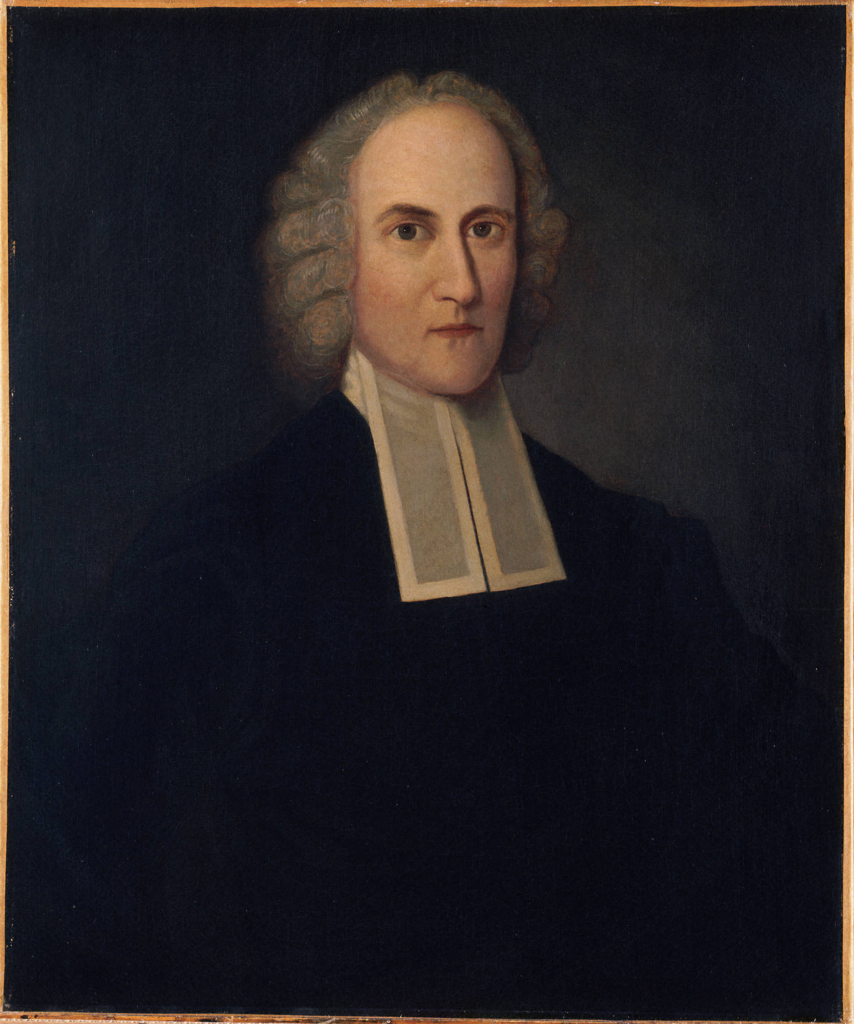 Henry Augustus Loop, American, 1831–1895 after Joseph Badger, American, 1708 - 1765 Jonathan Edwards (1703-1758), President (1758), 1860 Oil on canvas 76.2 x 63.5 cm. (30 x 25 in.) 97.8 x 85.1 cm. (ca. 38 1/2 x 33 1/2 in.) (frame) Princeton University, gift of great-grandsons of Jonathan Edwards PP12